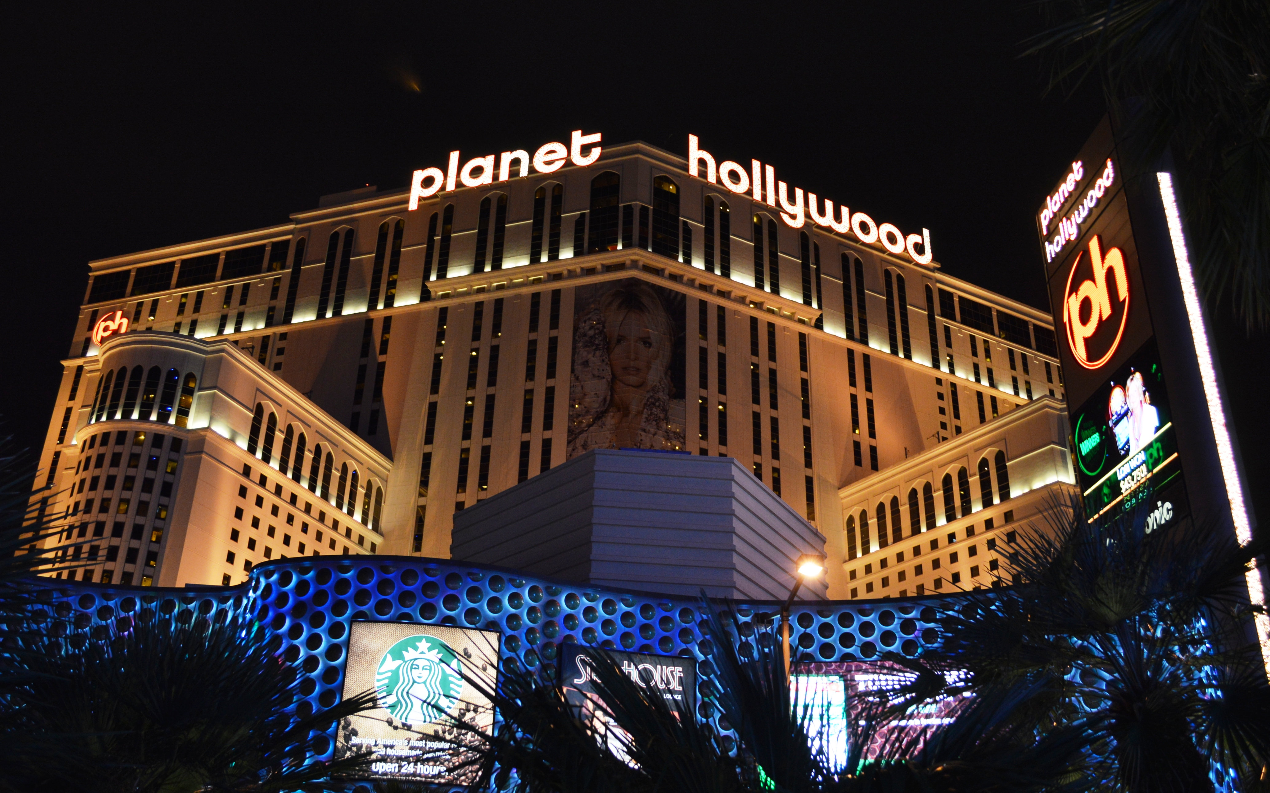 Planet Hollywood Resort and Casino on the Las Vegas Strip.